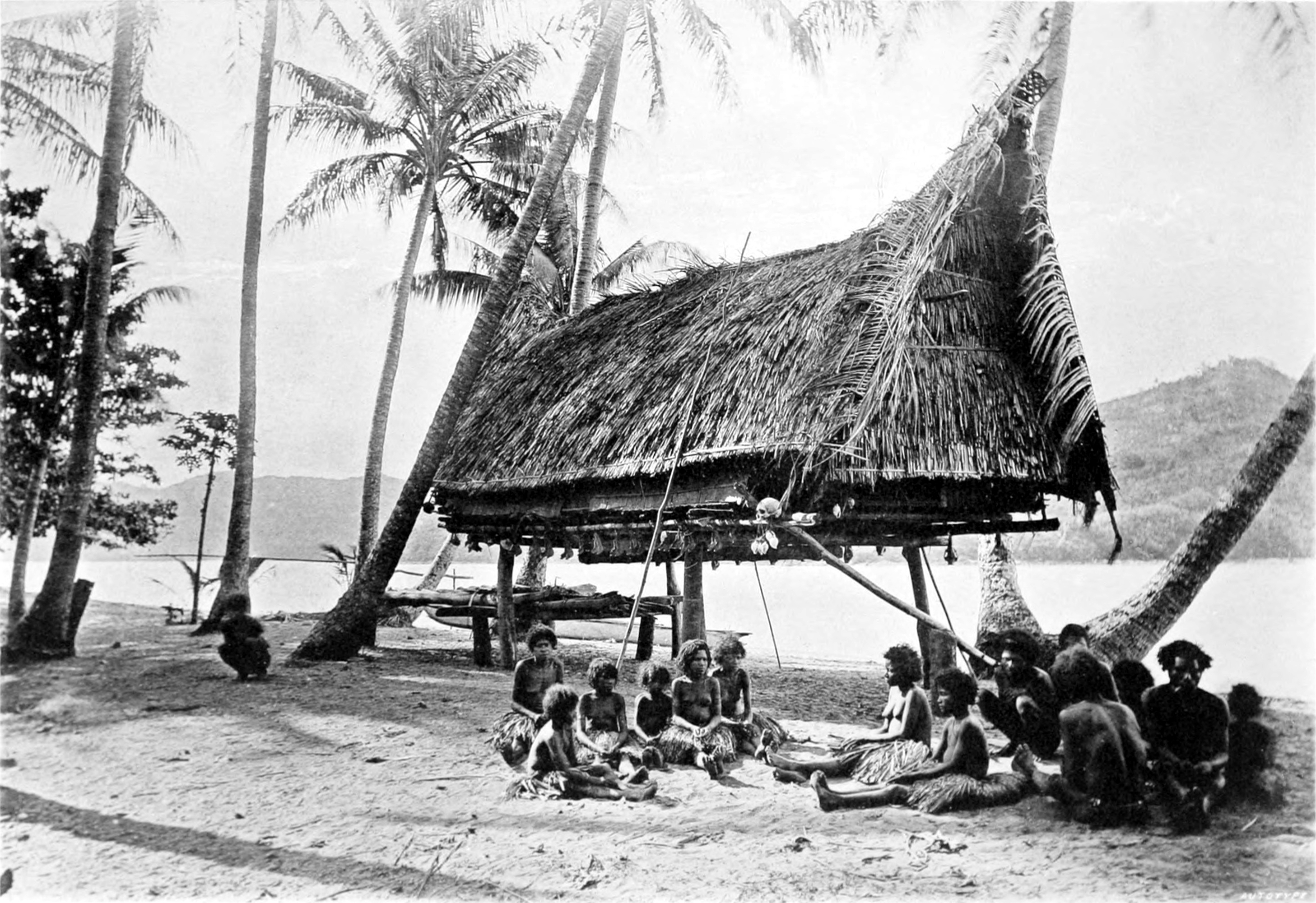 Group and native house, Mairy Pass. Mainland of British New Guinea in the distance.